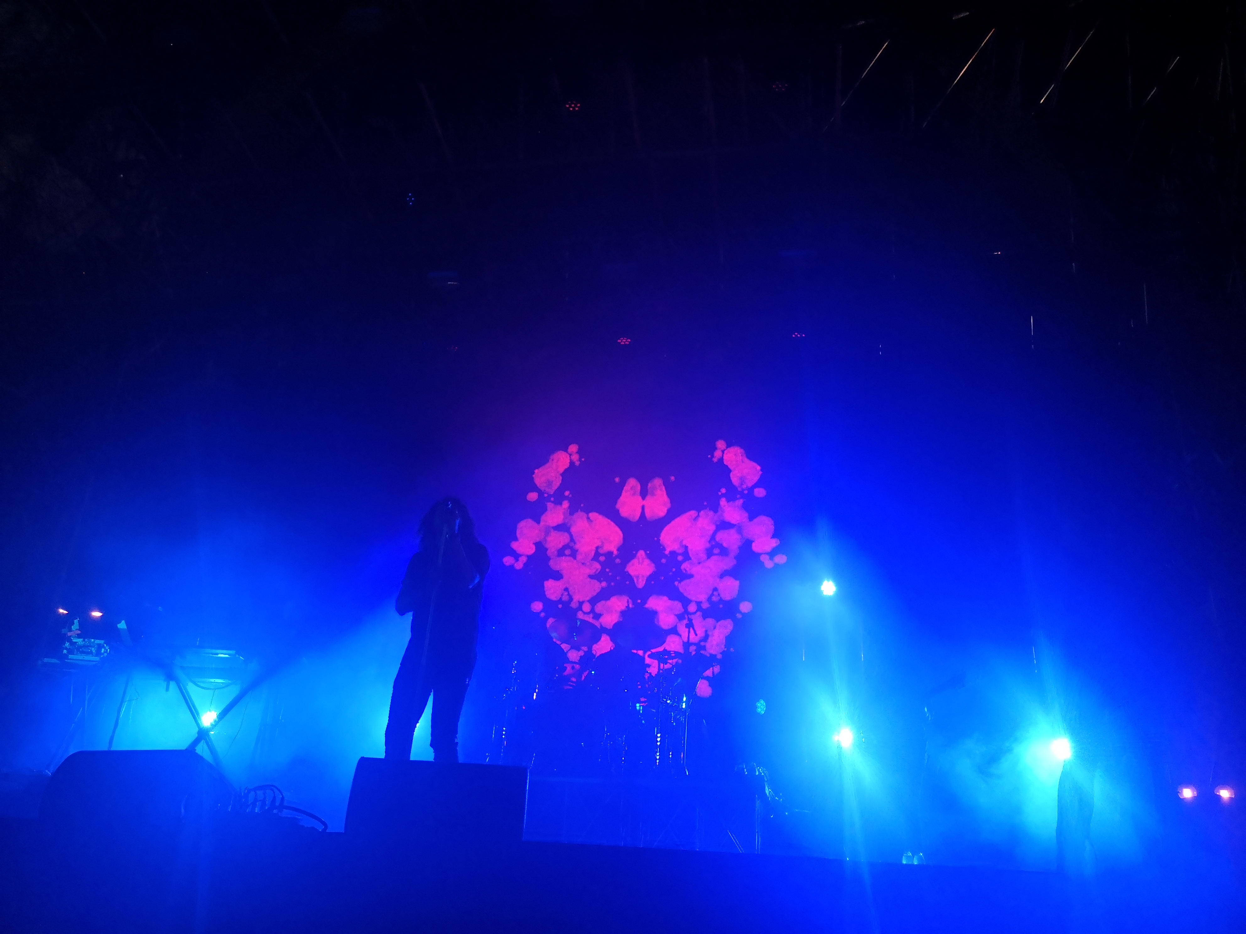 Haken live at Rock in Roma on July 7th, 2019, during their Summer Vectour Europe 2019